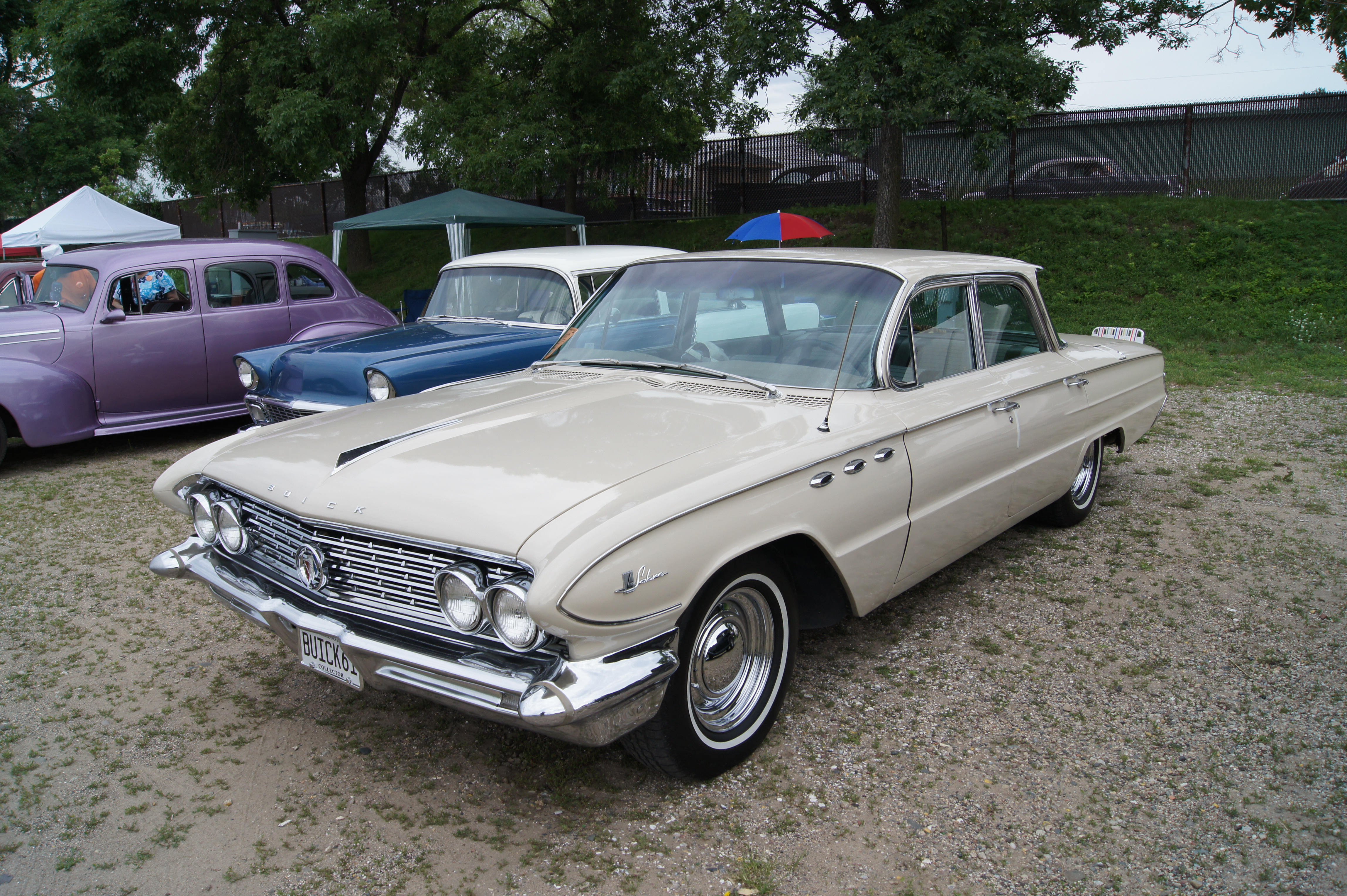 Minnesota Street Rod Association "Back to the Fifties" June 2012 Minnesota State Fairgrounds St. Paul MN